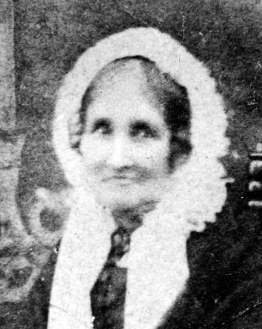 Susannah Roe followed her husband James Elphinstone Roe to Australia when he was transported. Both of them worked there as schoolteachers, Susannah providing a steadier income than James, whom school boards would not always employ, both because of his conviction and because he was an outspoken advocate of school reform. She taught at schools in York, Geraldton, and Greenough (Western Australia) between 1864 and 1873. This photograph is of unknown date.